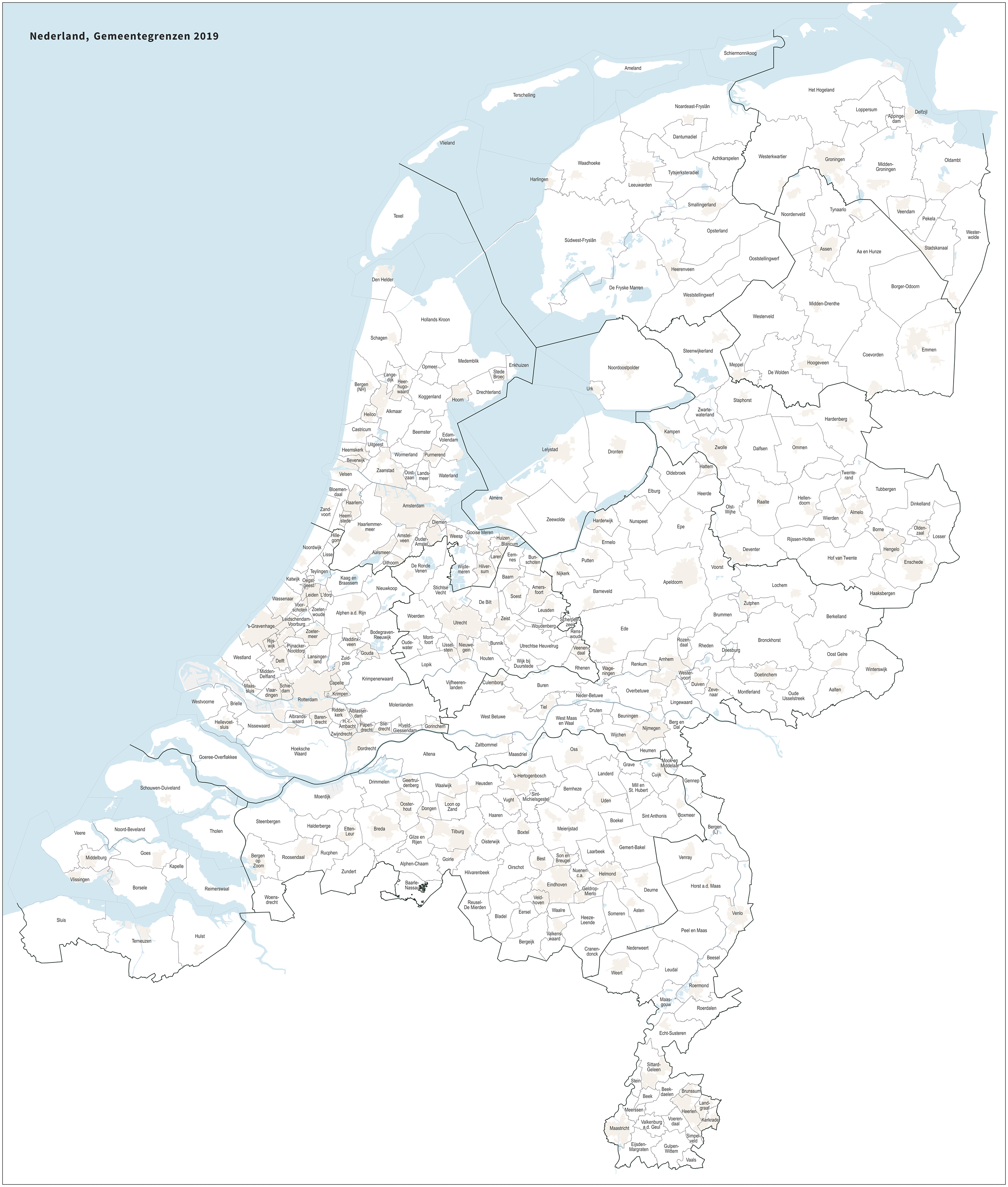 Overview map of the Dutch municipalities as of 2019, compiled by Jan-Willem van Aalst using open geodata from Kadaster and CBS.